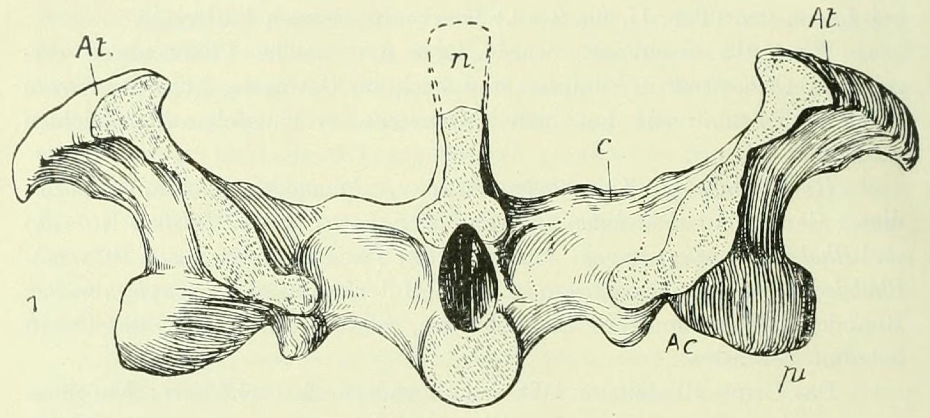 Depiction of a sacrum assigned to Rhabdodon priscum var. suessi, a synonym of Mochlodon suessi.